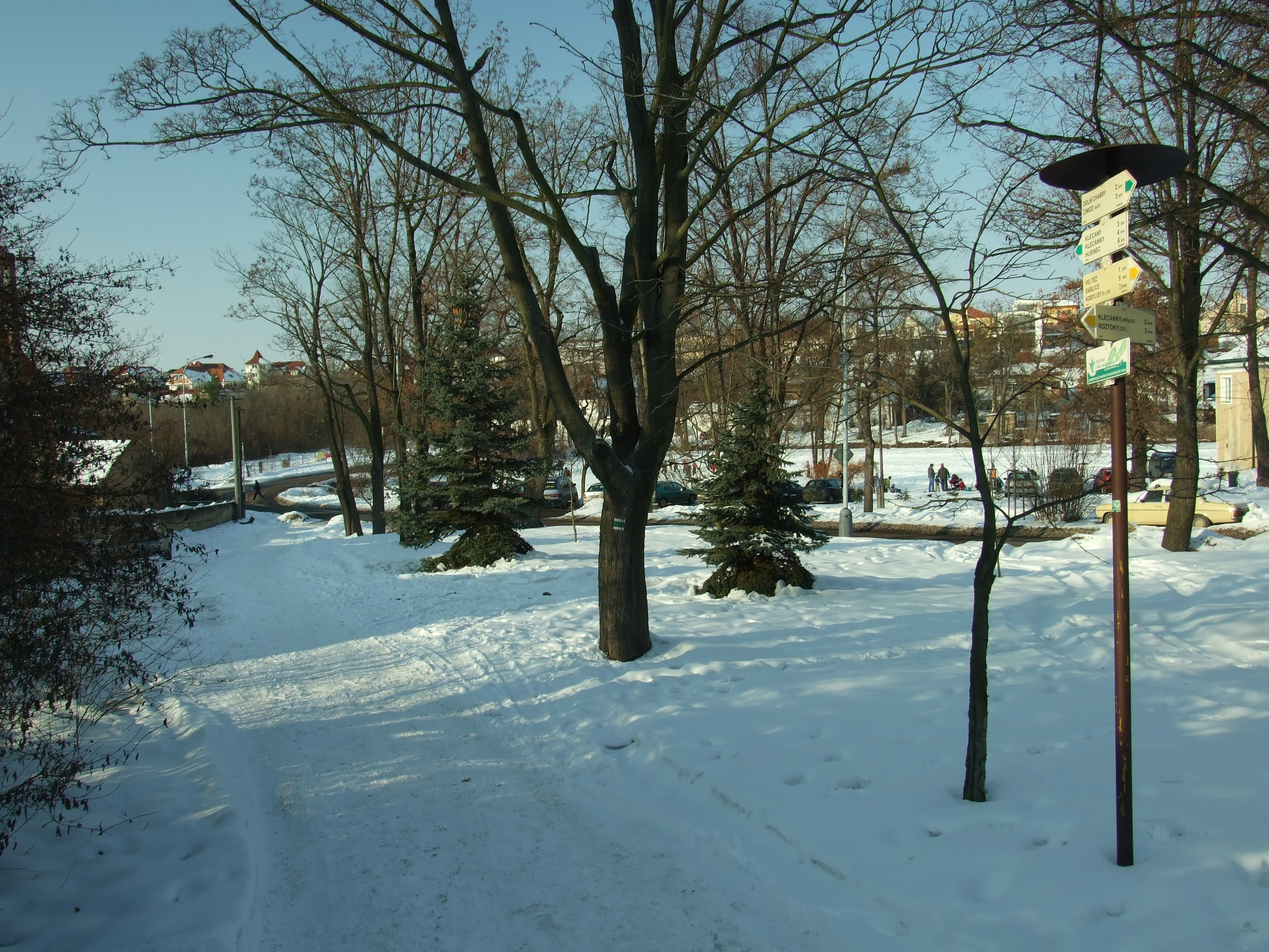 Some tiny park in Přemyšlení. Přemyšlení is a part of Zdiby, village near Prague, Central Bohemian Region, CZ